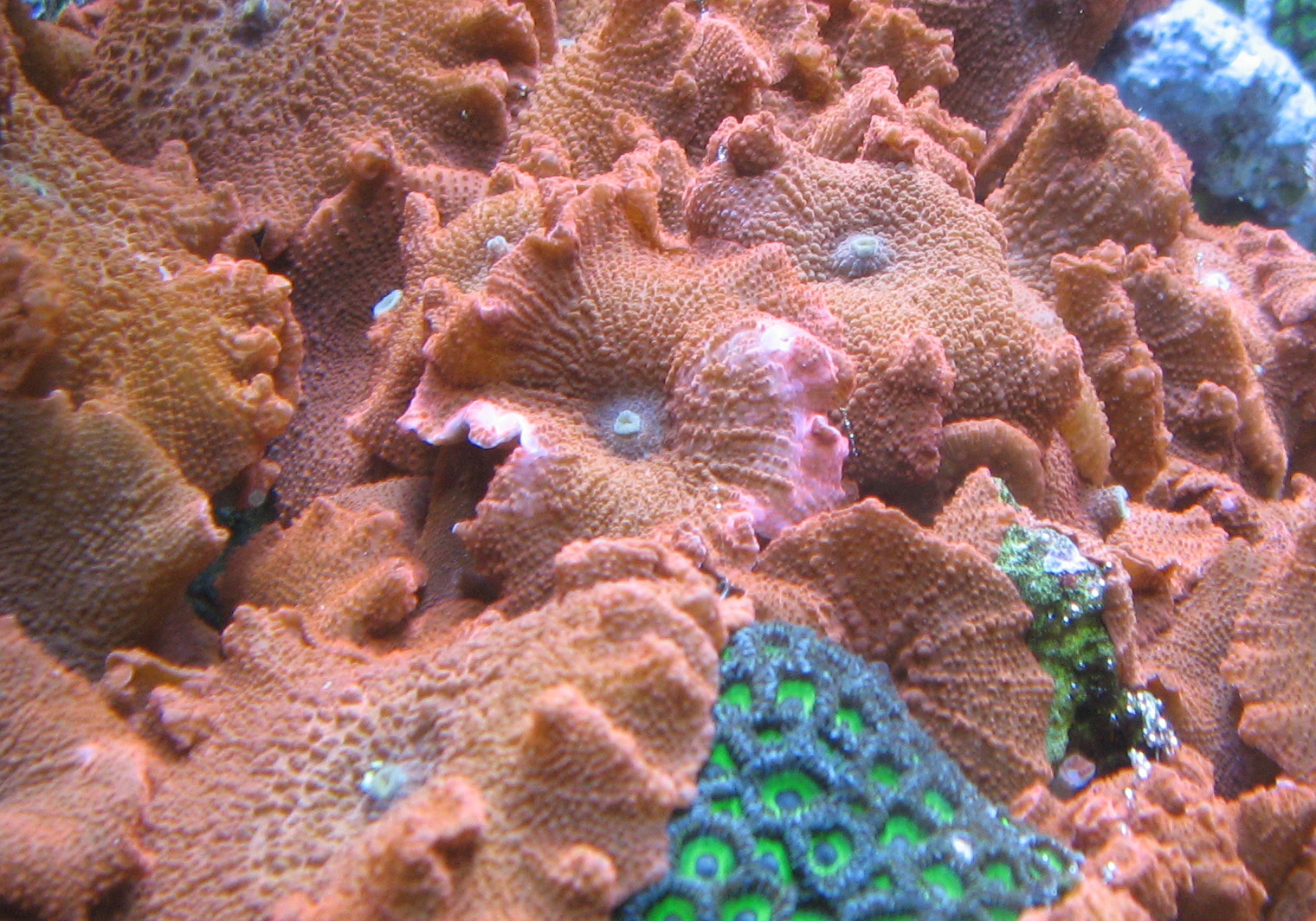 A group of Discosoma sp individuals colonizing a head of Zoanthus sp. Photographed at the Seattle Aquarium on 1/24/09